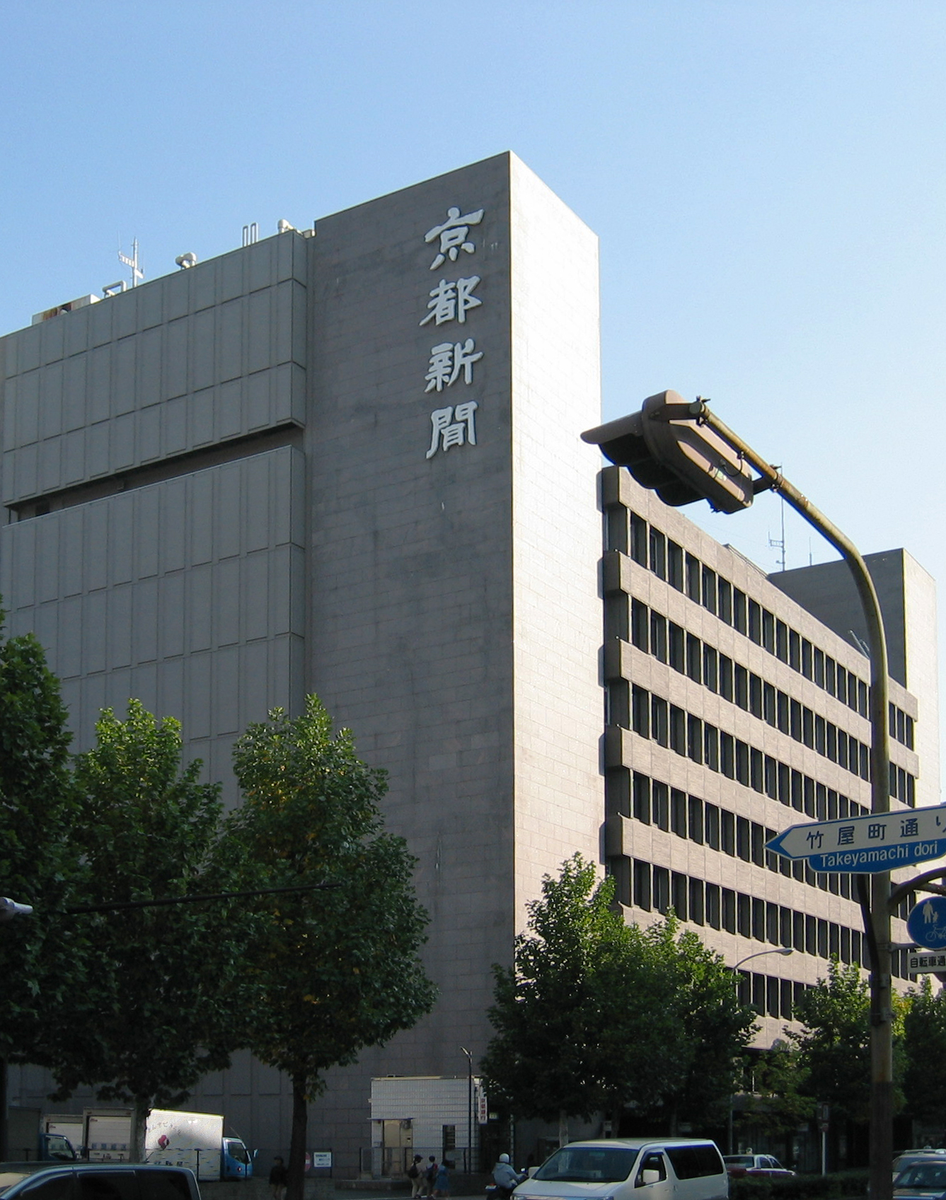 Photograph of Kyoto Shimbun Building (headquarters) in Nakagyo-ku, Kyoto, Kyoto Prefecture, Japan.